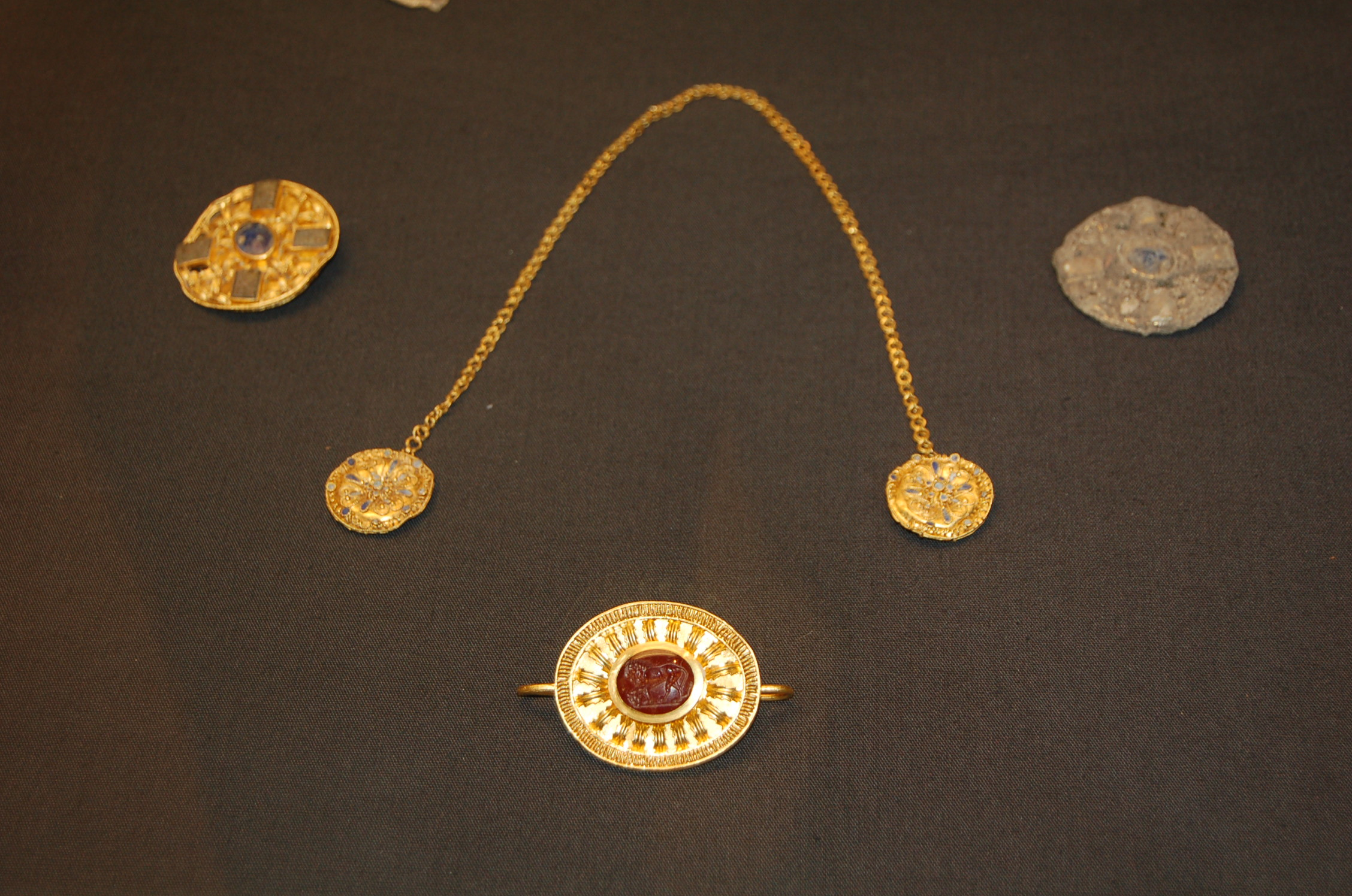 This is a hoard of 26 gold and silver roman objects including gold jewellery nineteen votive ‘leaf’ plaques and two silver model arms. A set of jewellery comprised of a pair of gold disc brooches, a pair of gold discs linked with a chain and a gold gem-set clasp